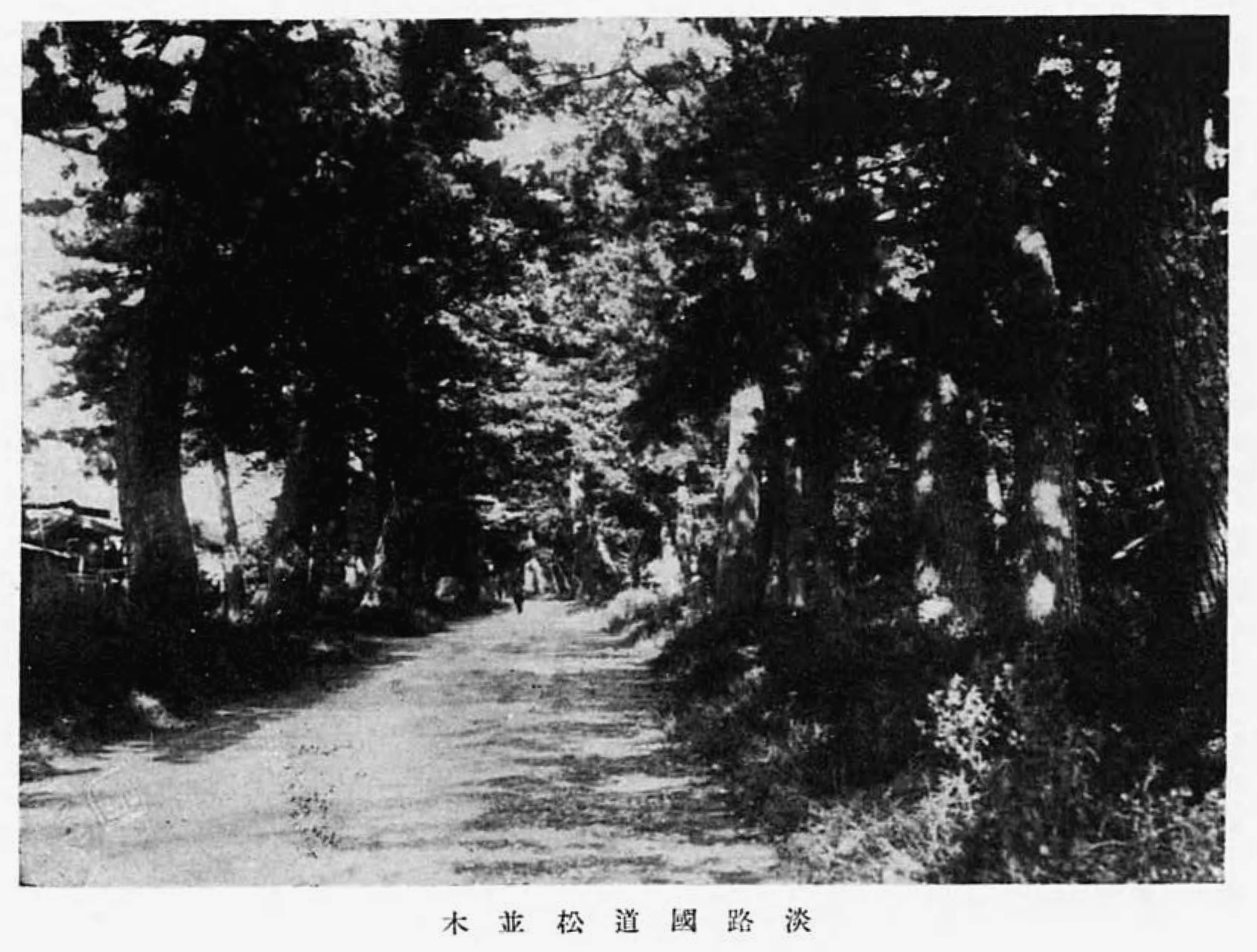 Pine Avenue in the National Highway at Awaji, Hyogo prefecture, Japan.